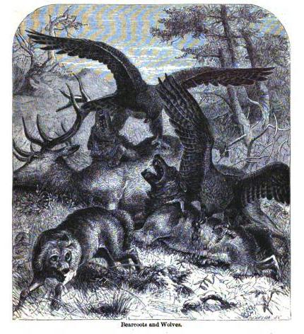 Berkut eagles attacking wolves